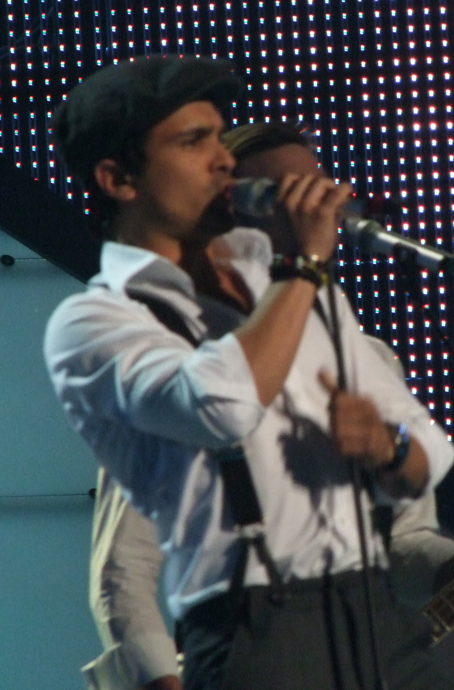 Cropped image of Simon Mathew in the 2nd semi-final at the Eurovision Song Contest in Belgrade, Serbia, May 22, 2008.